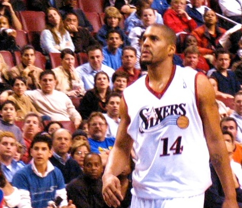 Corliss Williamson of the Philadelphia 76ers. All images must be properly attributed to Matthew Johnson. Higher resolutions are available. For more information